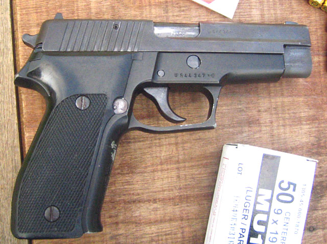 A Sig Sauer P226, belonging to Indonesia's Marinir (Marine Corps).